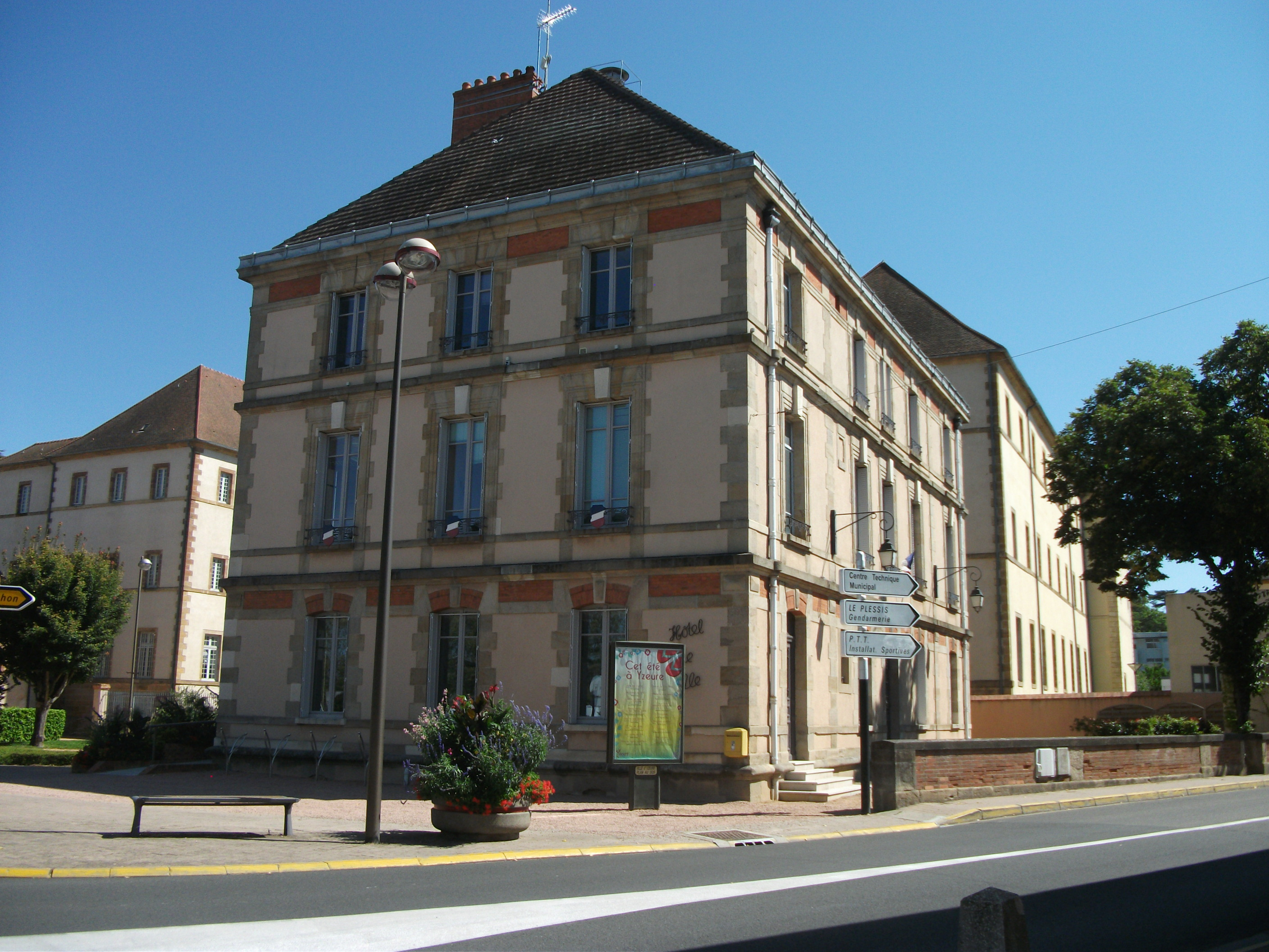 Town hall of Yzeure [8819]